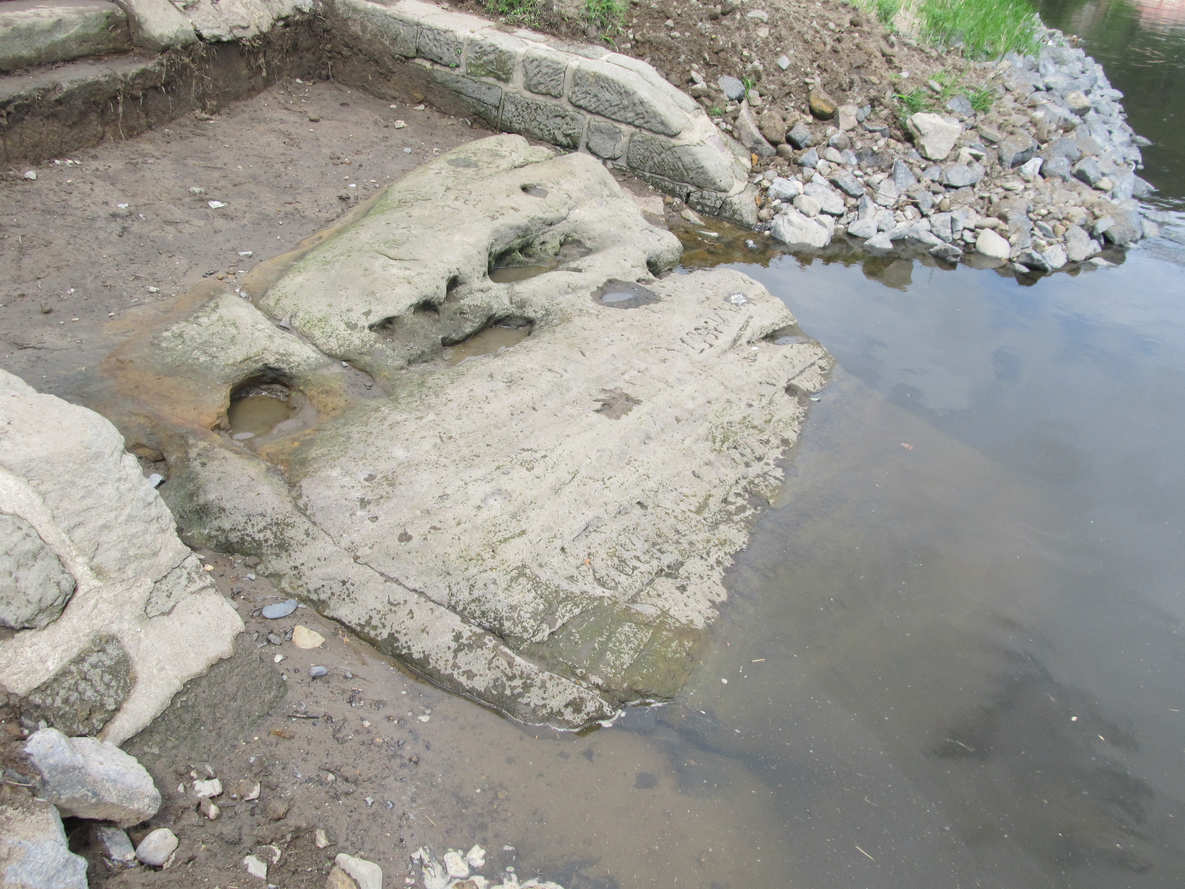 Stone, on which are marked low levels of the Elbe River in Děčín.